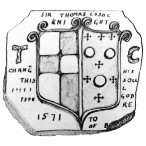 A paper describing the remains of the memorial stones to Sir Thomas Cusack given in 1999 to Trinity College Dublin ref MS11096 Box 98